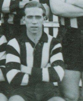 Photo of Mick Donohue in 1942